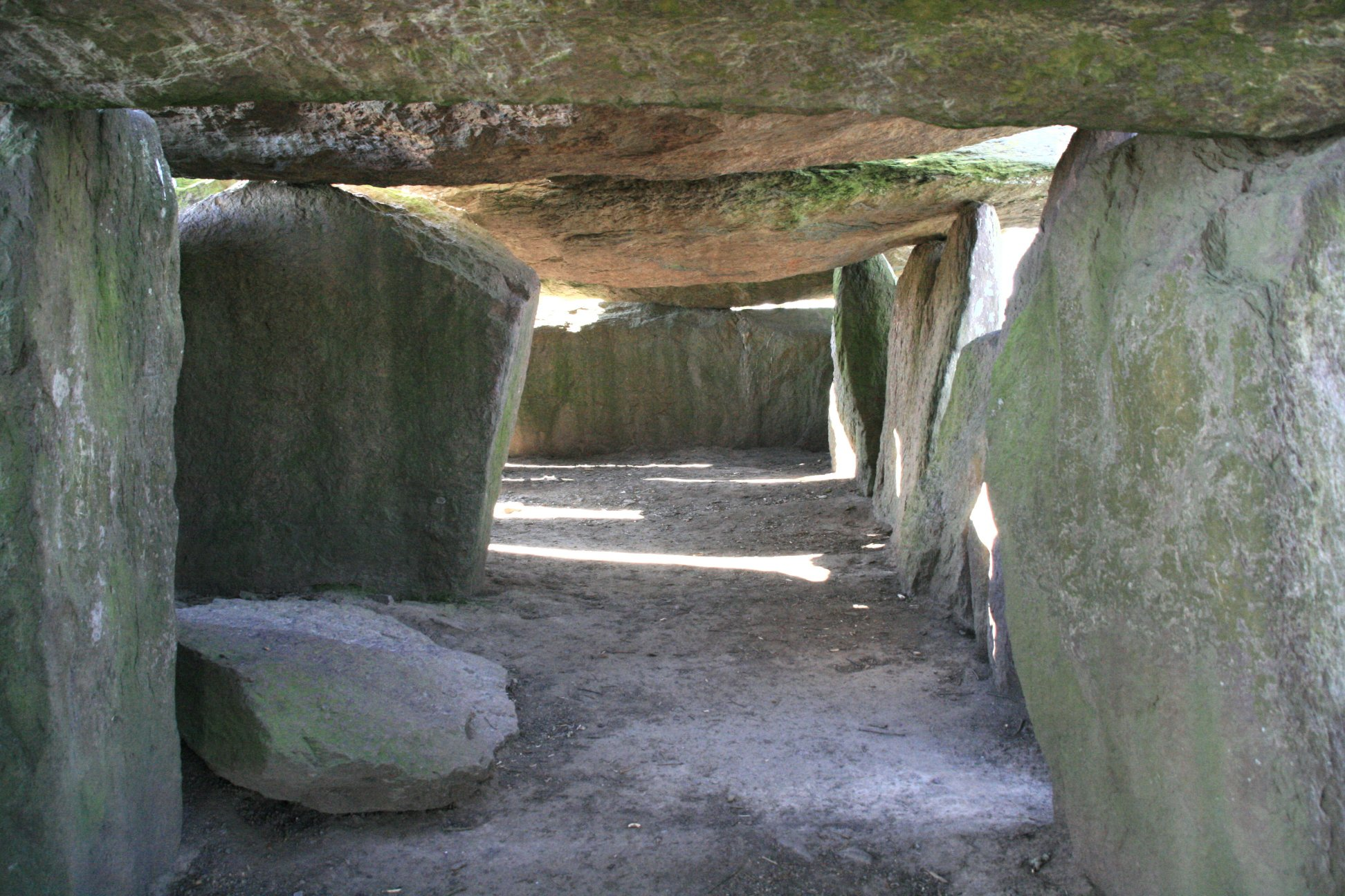 Inside the "Roche-aux-Fées", village of Essé, Ille-et-Vilaine, Brittany, France. It's a dolmen (gallery grave), the biggest in France, built near 2500 ~ 2000 B.C.